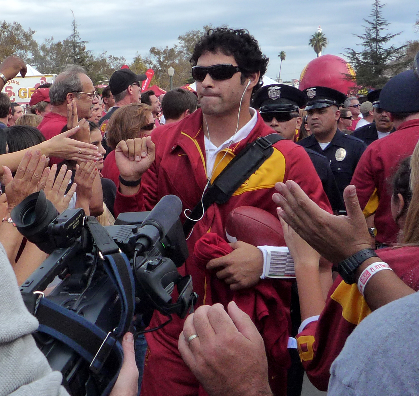 Mark Sanchez during the "Trojan Walk" preceding a 2008 USC Trojans football season game.